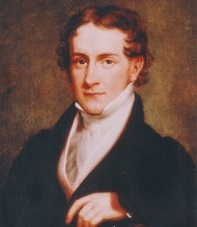 This portrait of John Quincy Adams' son was painted by Charles Bird King in 1827 when Adams was just twenty years old.